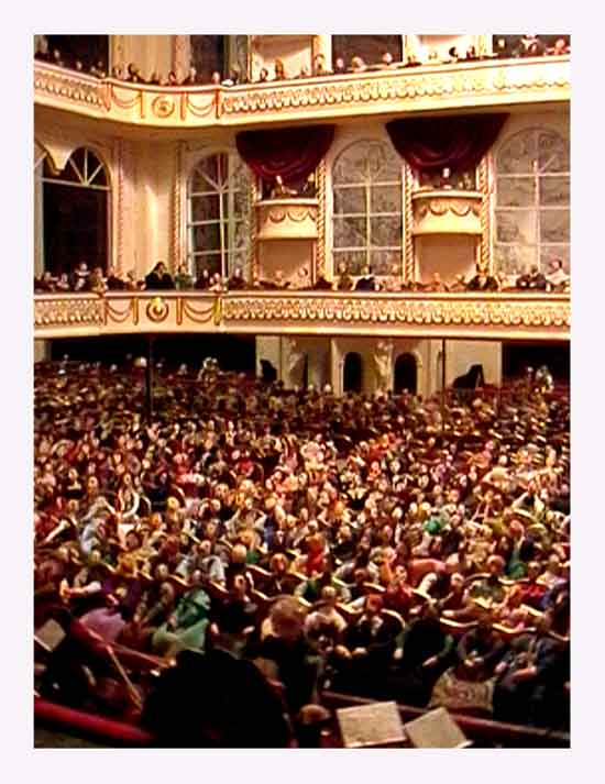 зрители лиликанского театра